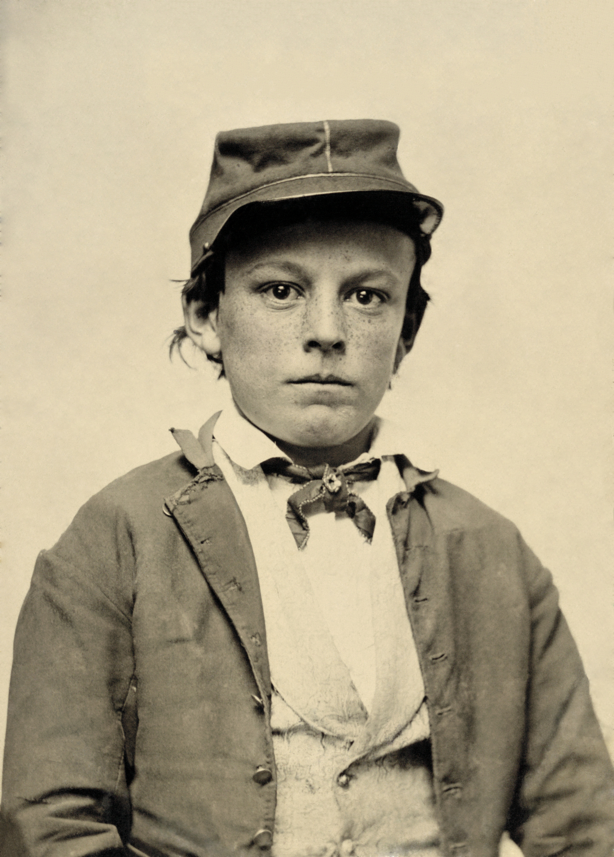 Photograph shows young soldier, possibly a drummer boy.